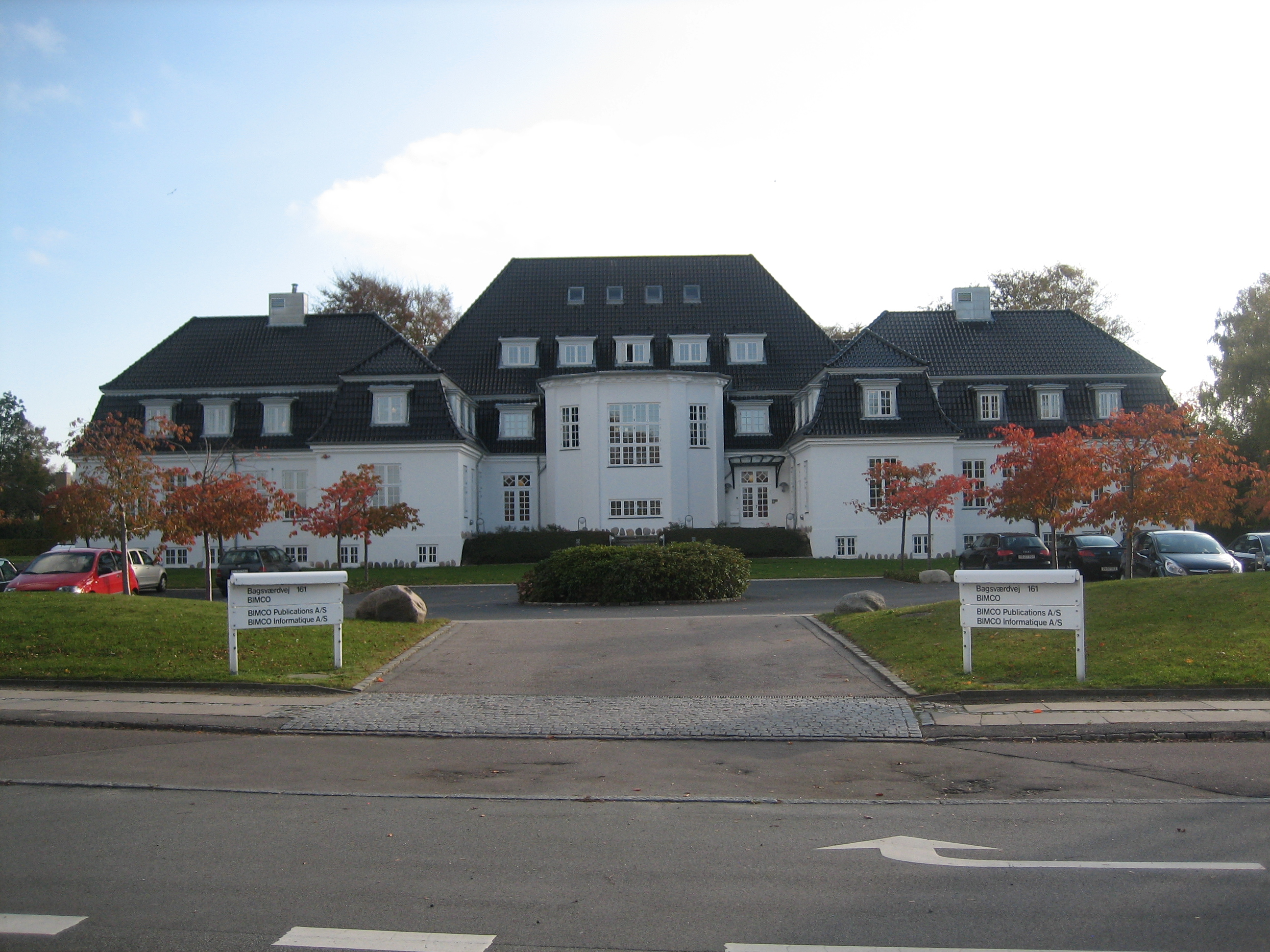 The headquarter of BIMCO